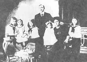 René Lefebvre and his family (including his wife Gabrielle Wattin and his son Marcel Lefebvre).